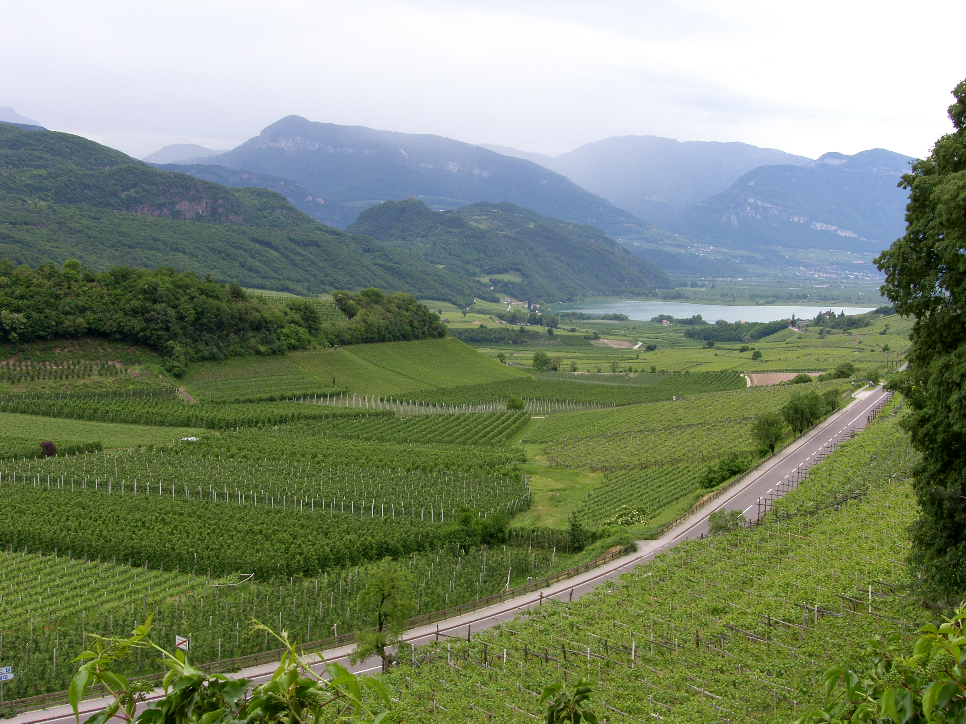 Wine Street of South Tyrol view from Kaltern to the Lake of Kaltern